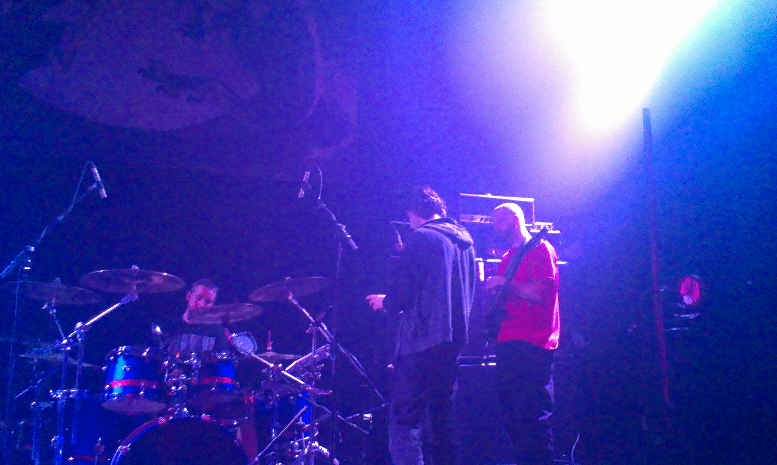 Ion Dissonance's concert photographed in Laval, Quebec, Canada at Scène 1425.